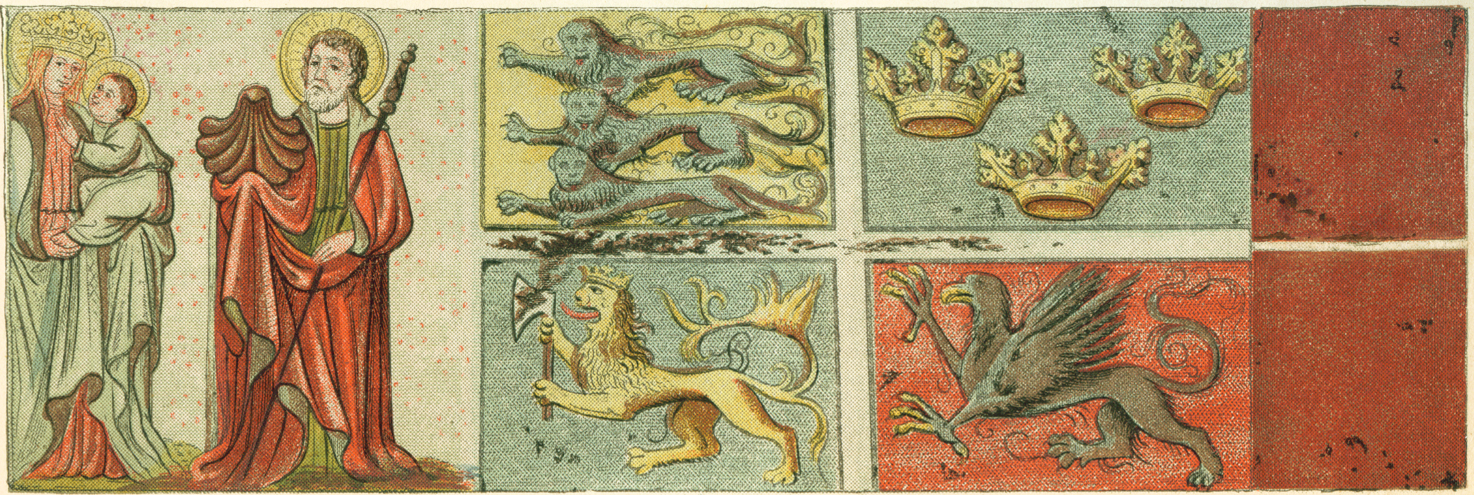 A medieval ship flag captured from a Danish ship by forces from Lübeck in 1427 displaying the arms of Denmark, Sweden, Norway and Pomerania. The flag remained in this city for 500 years, until destroyed in World War II during an Anglo-American bombardment that damaged St. Mary's Church where the flag was kept. A 19th century copy is exhibited at the Danish Museum of National History at Frederiksborg Palace, Denmark. The saint accompanying the Virgin Mary and infant Christ is Saint James the Greater, identified by his scallop shell emblem. Based on the heraldic images shown, the flag must have dated from the reign of King Eric of Pomerania. It was consequently created no earlier than 1396 and no later than the 1420s. The flag was made of coarse linen. All figures and heraldic insignia were created using oil-based paint, and the flag's two sides were imperfectly painted as mirrors of each other.